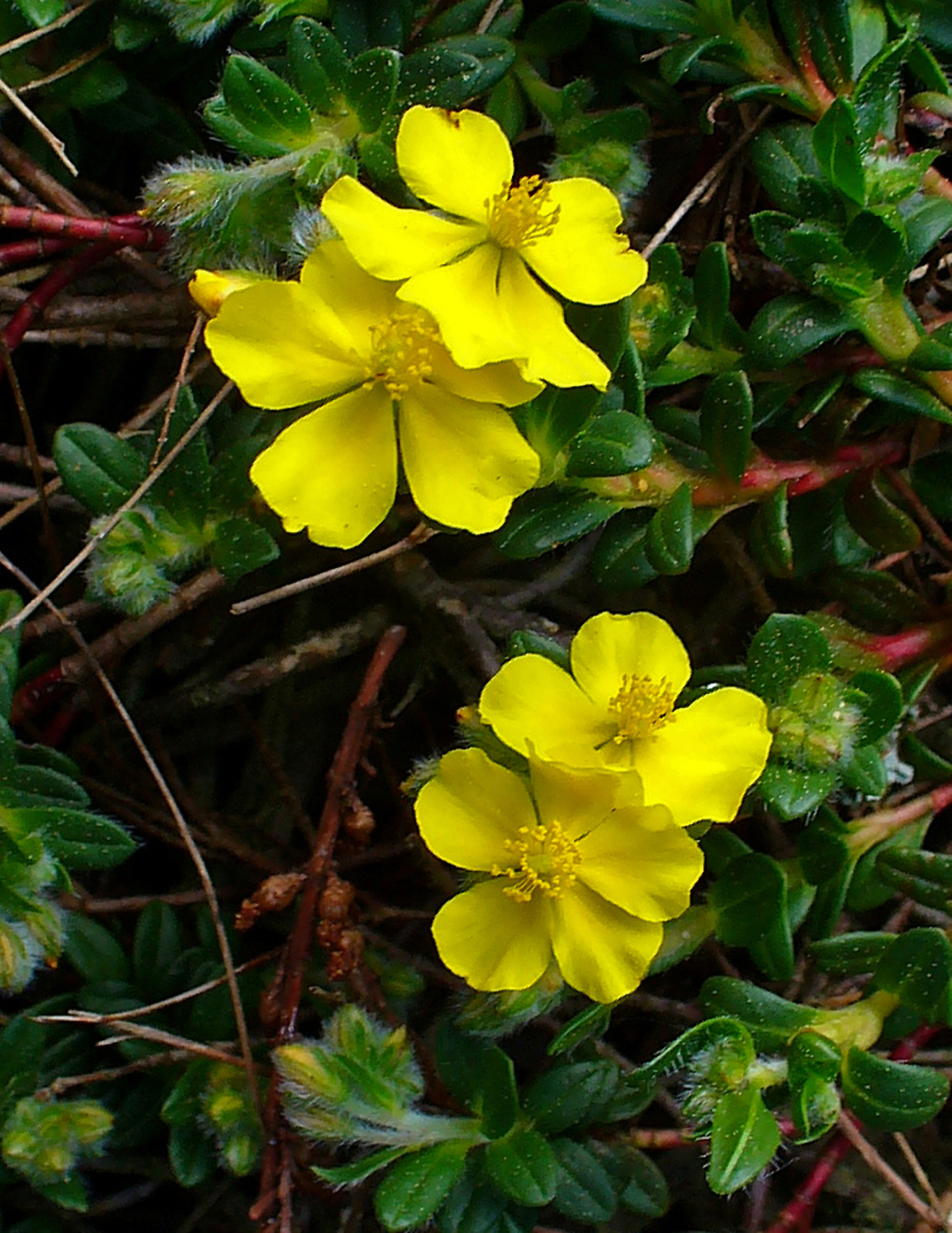 Helianthemum alpestre, Cistaceae, Alpine Rock-Rose, flowers; Botanical Garden KIT, Karlsruhe, Germany.